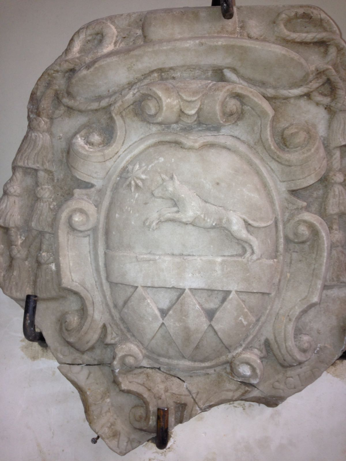 The coat of arms of Maurolico